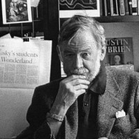 Peter Corrigan - office